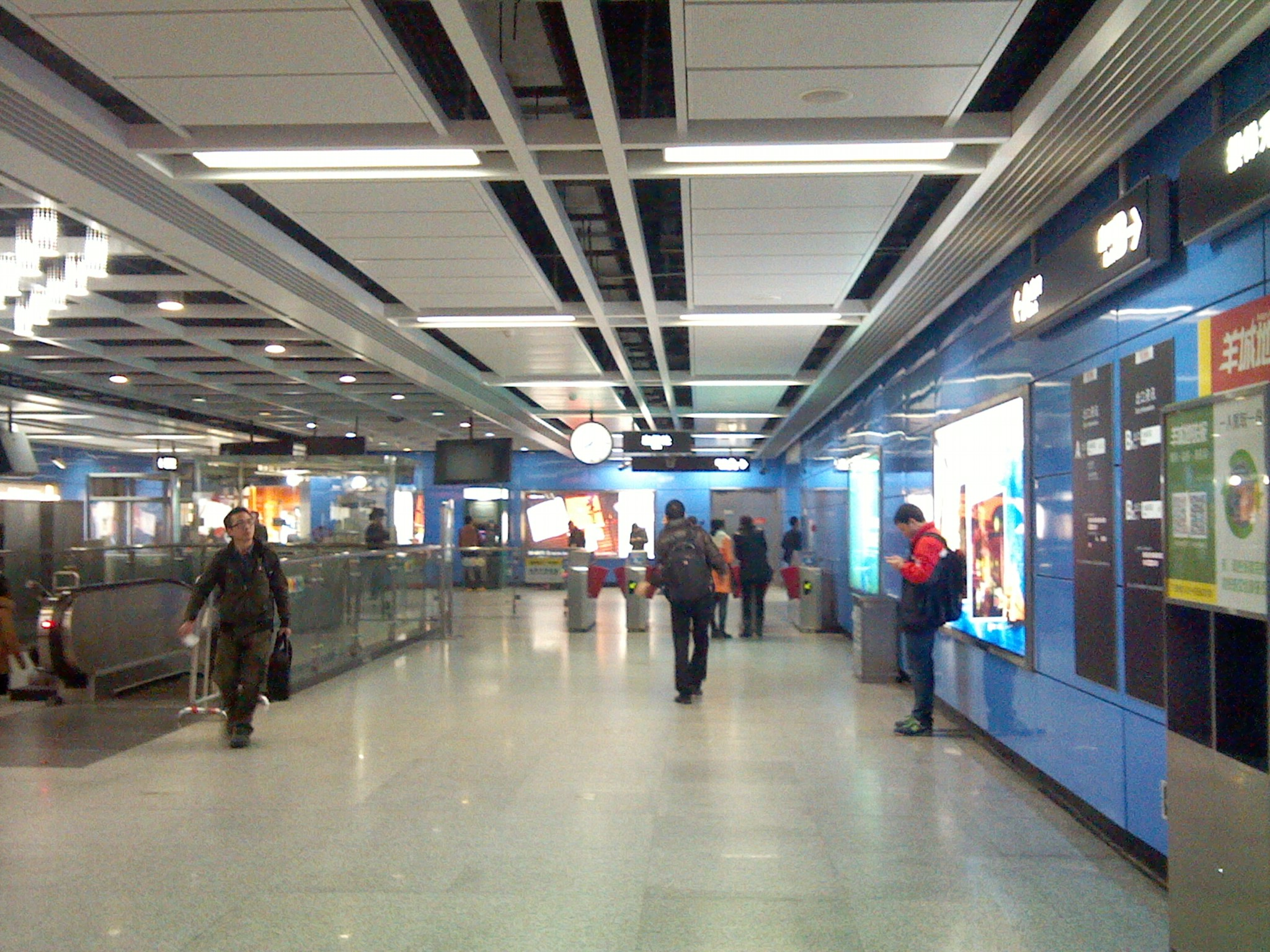 龙归站站厅厅